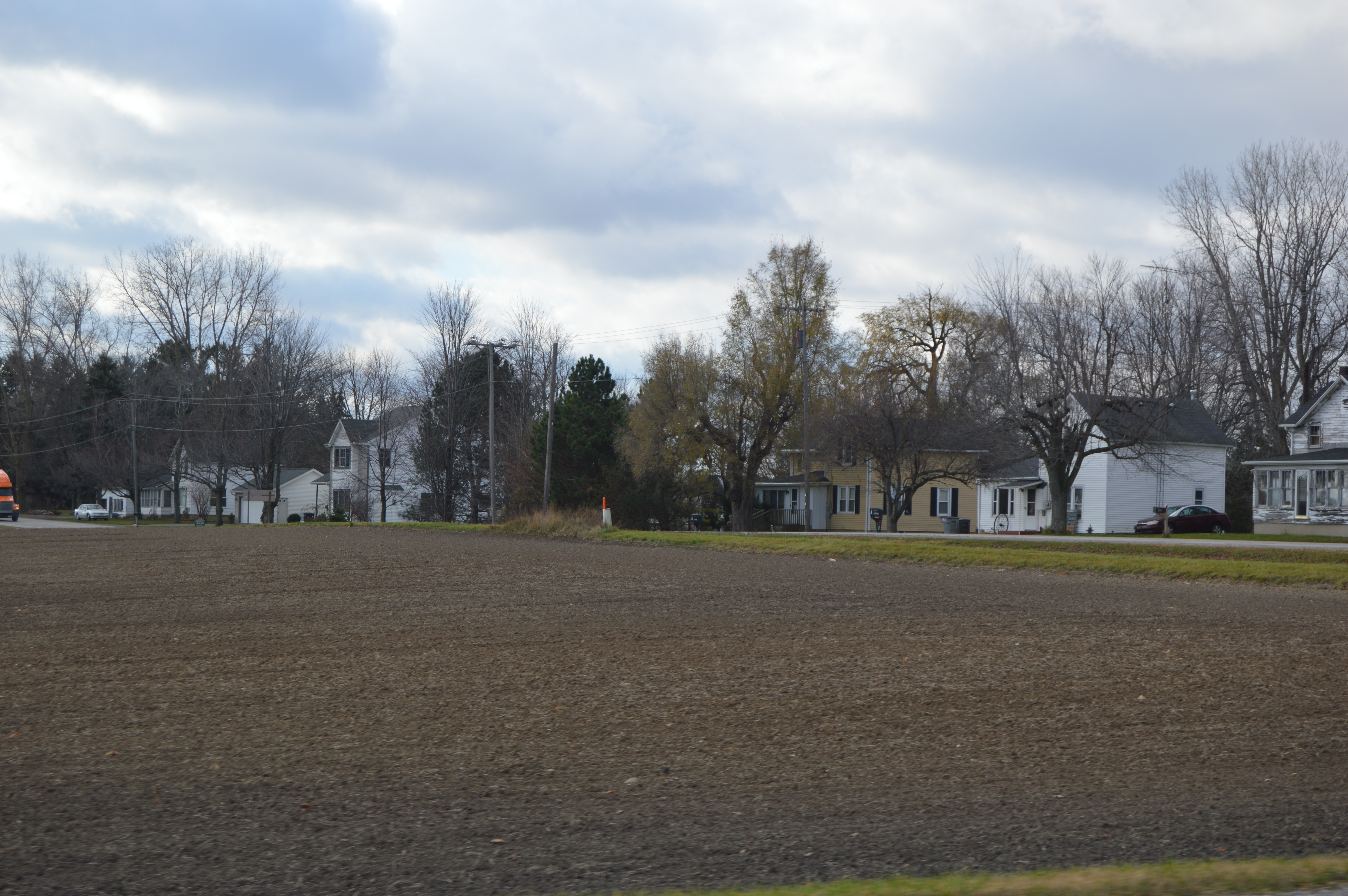 Houses on the western side of State Route 108 looking southwest from U.S. Route 20 at the community of Oakshade in Chesterfield Township, Fulton County, Ohio, United States.